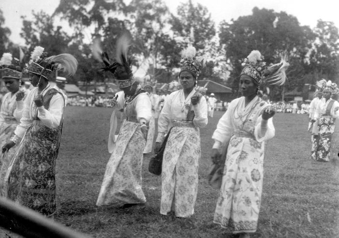 Ambonese women performing a dance on Queen's Day